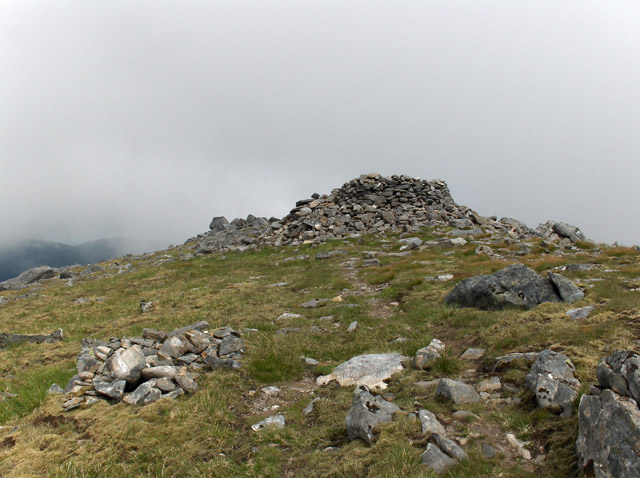 Sgurr na Lapaich (Mullardoch) The summit cairn completely hides the trig point within it.